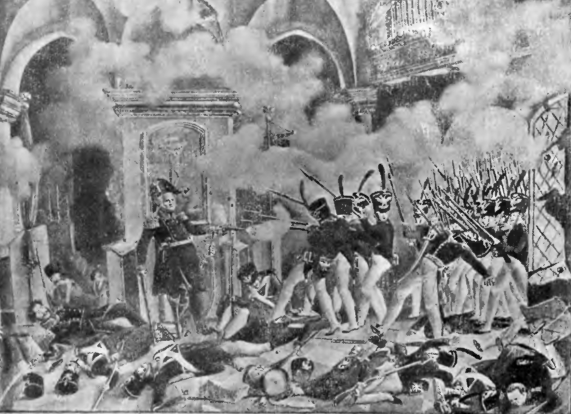 Death of General Józef Sowiński during Russian assault on Warsaw 1831